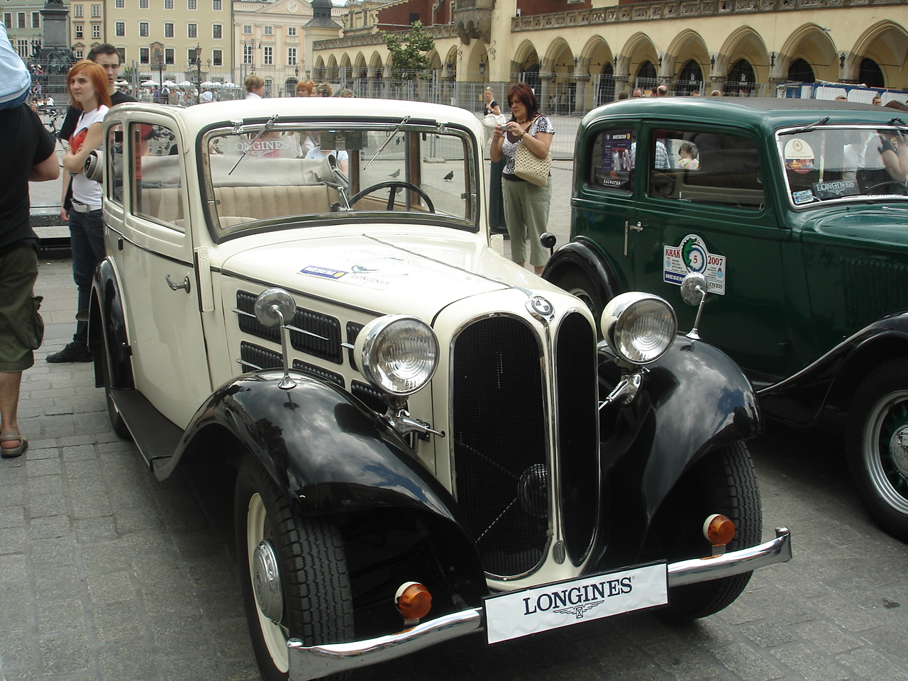 Kraków, Poland I think it is a 315 from 1934-7